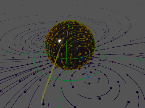 Mobius transformation, showing stereographic projection between plane and sphere. Generated with POVRAY. Povray file created with a java program. Donated to the Public Domain.